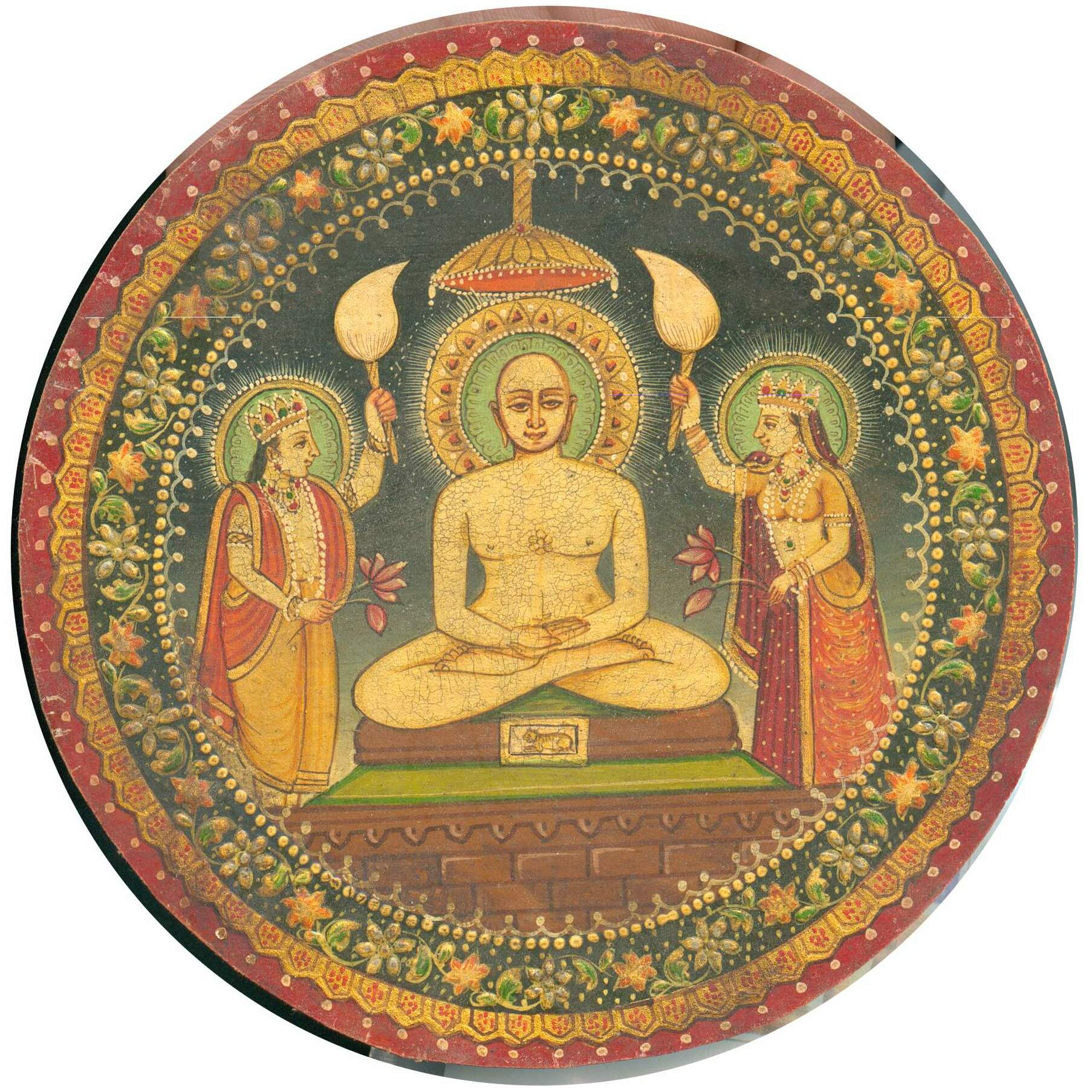 Painting of Mahavira (small painting, Rajasthan Dated 1900)from personal collection of Photos of Jules Jain